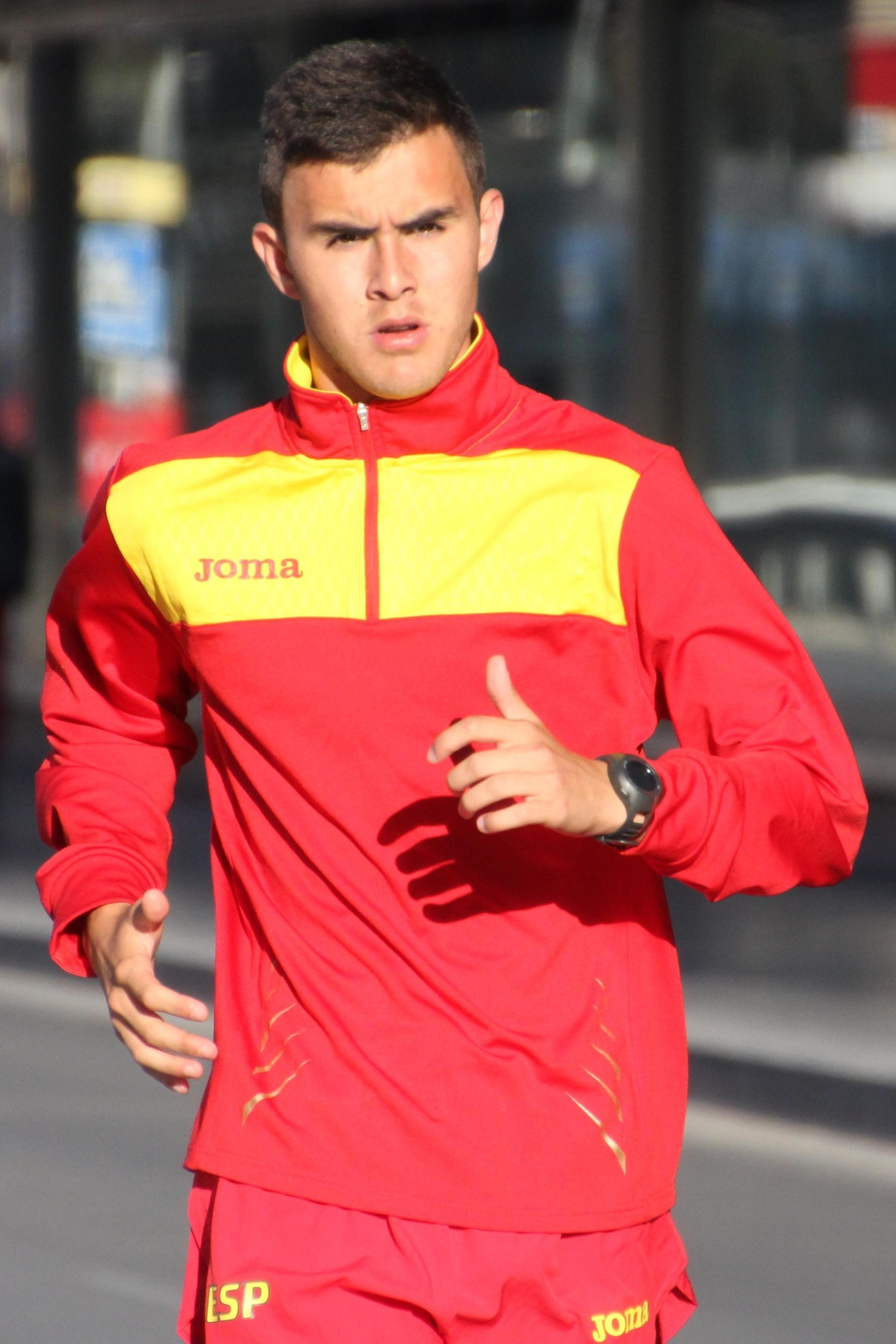 Manuel Bermudez Jimenez in the European Race Walking Cup. Murcia (Spain), May 17, 2015.